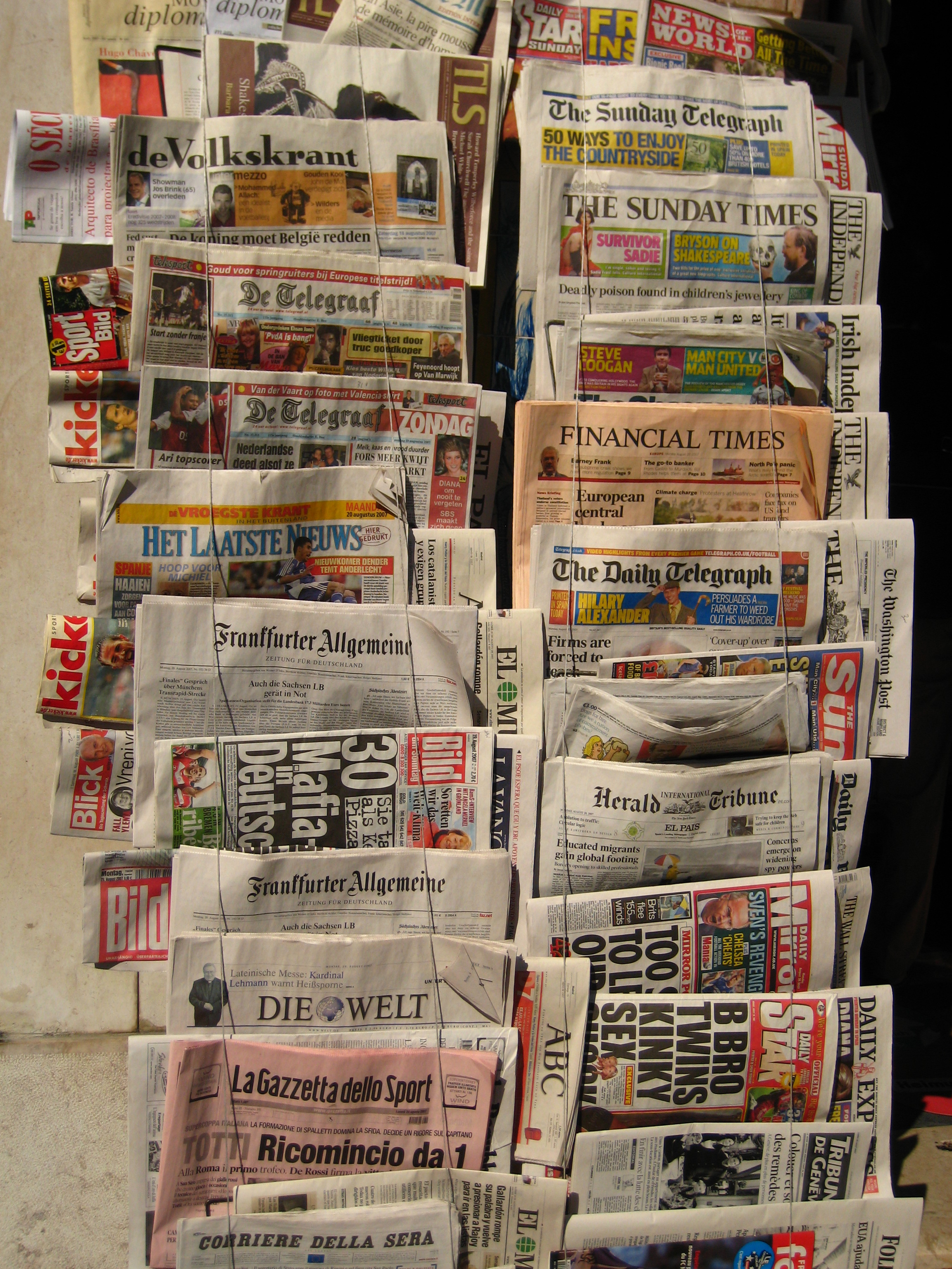 Lisboa - Newspapers